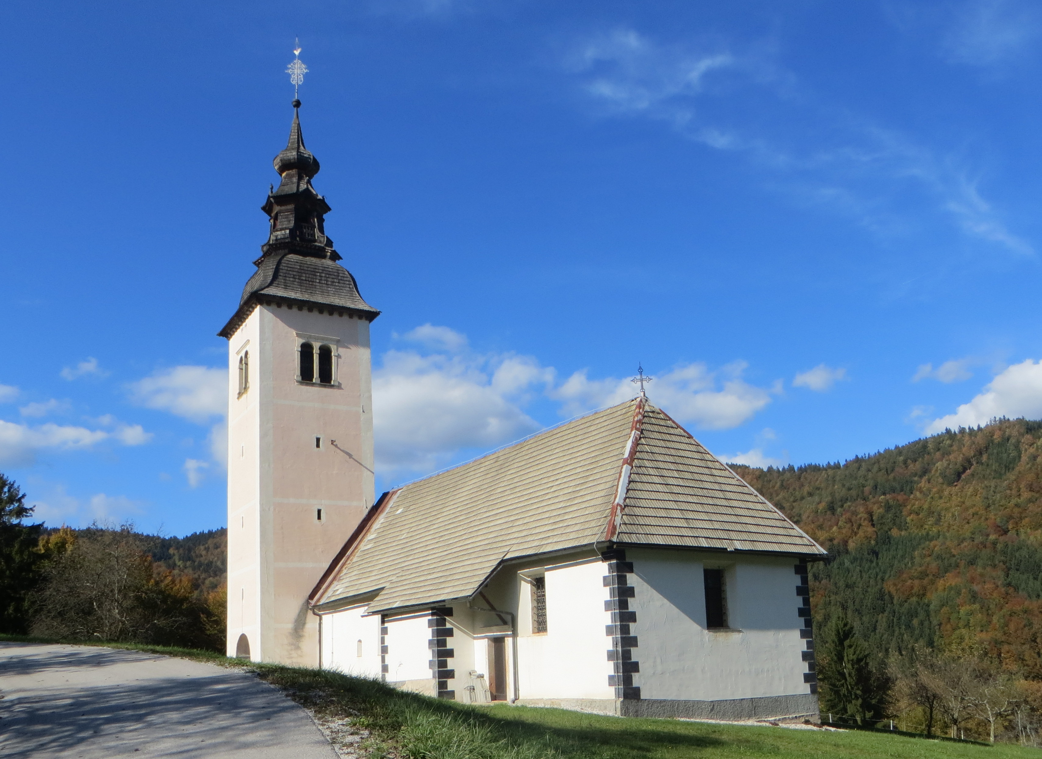 Saint Florian's Church in Sopotnica, Municipality of Škofja Loka, Slovenia